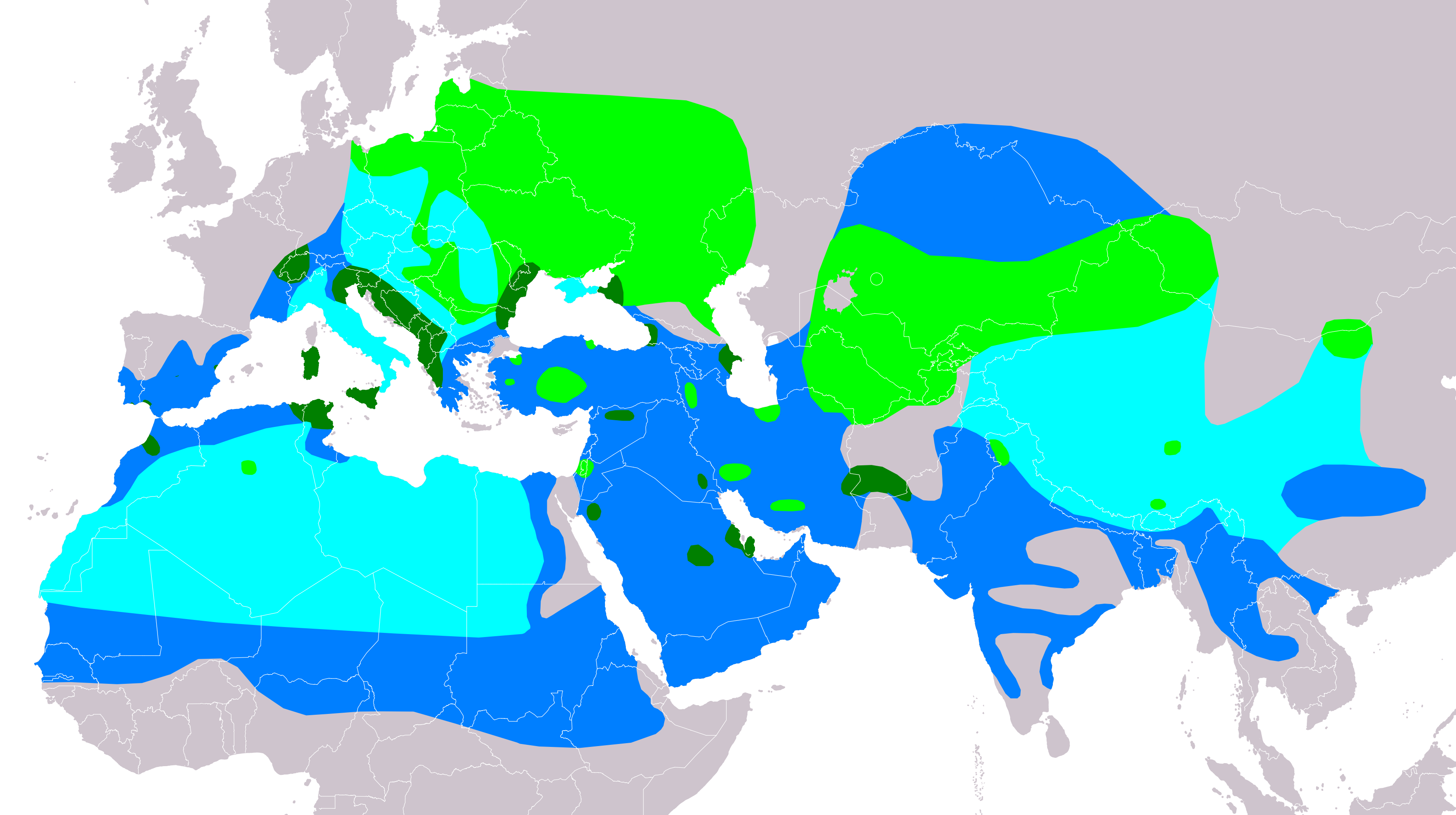 The distribution map of ferruginous duck (Aythya nyroca) according to IUCN version 2019.1 ; key: Legend: Extant, breeding (#00FF00), Extant, resident (#008000), Extant, passage (#00FFFF), Extant, non-breeding (#007FFF)